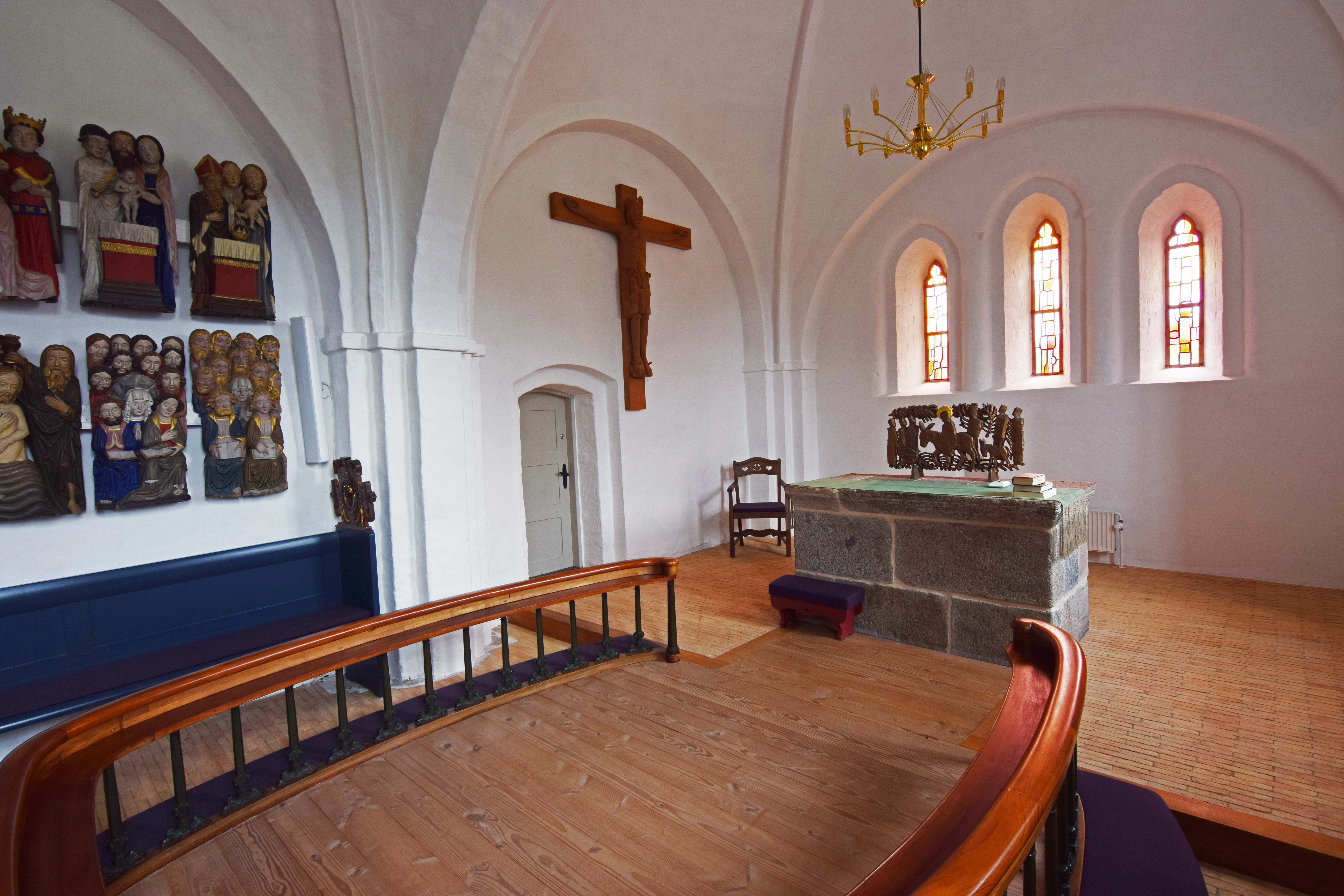 Aal Kirche Chor